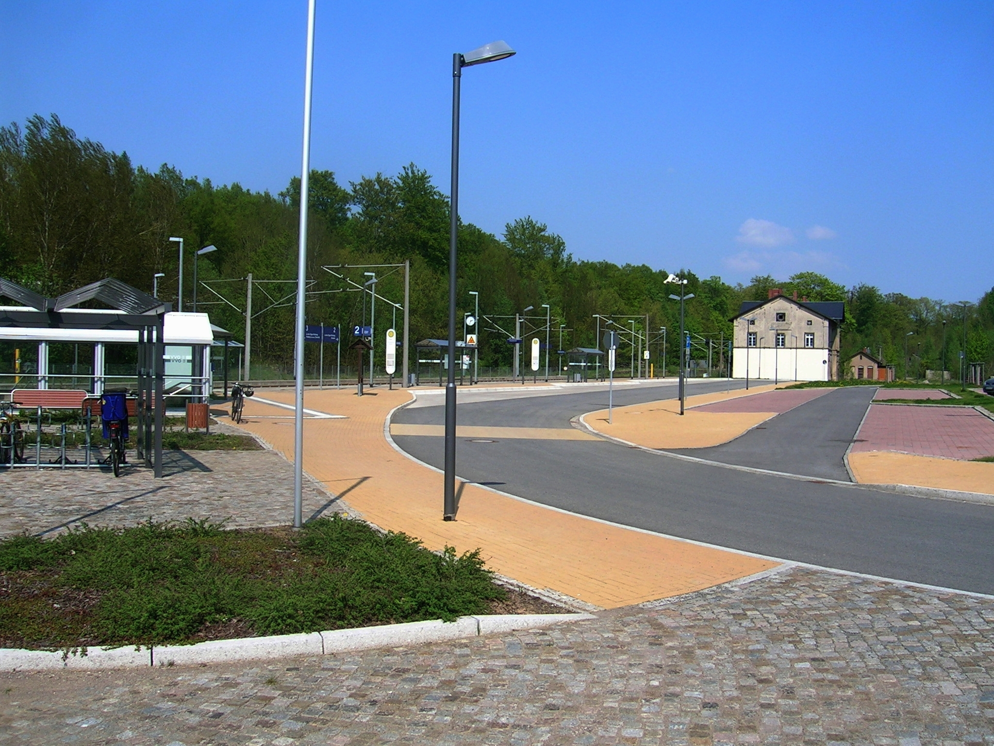 Klingenberg-Colmnitz railway station;area in front of the station